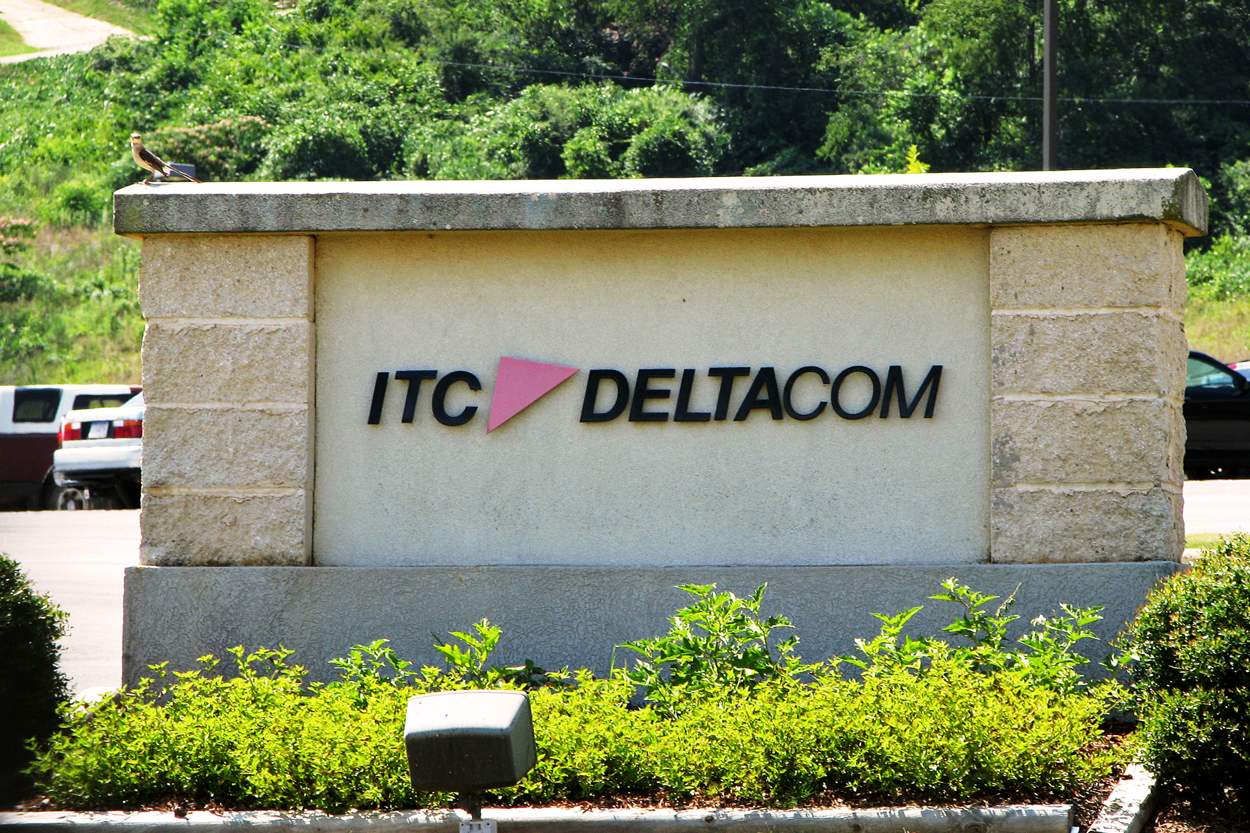 Entrance sign at the Deltacom operations center in Anniston, AL. It features the previous company name and logo.